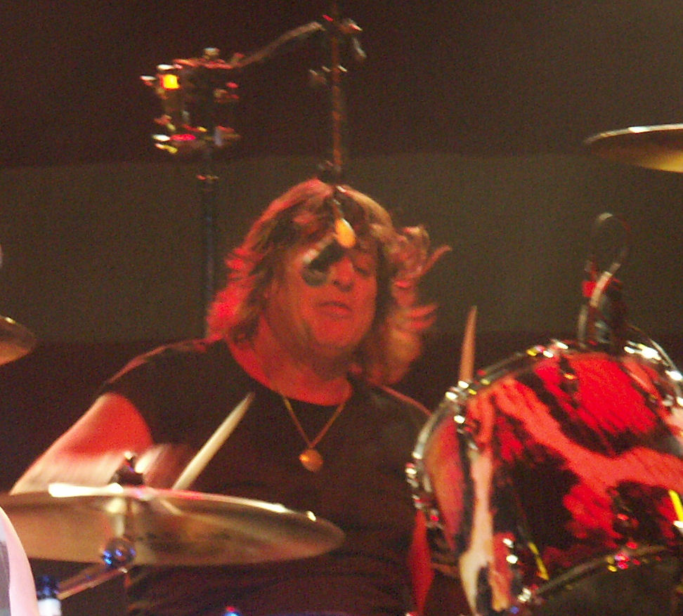 Taken at Ted Nugent Concert June 16, 2007 in W. Fargo, ND. Photo by Matt Becker